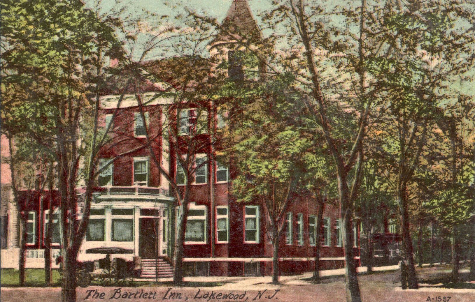 Glossy postcard of The Bartlett Inn, Lakewood, New Jersey, USA. Back is divided and reads "Pub. by H. Fried, Lakewood, N.J."